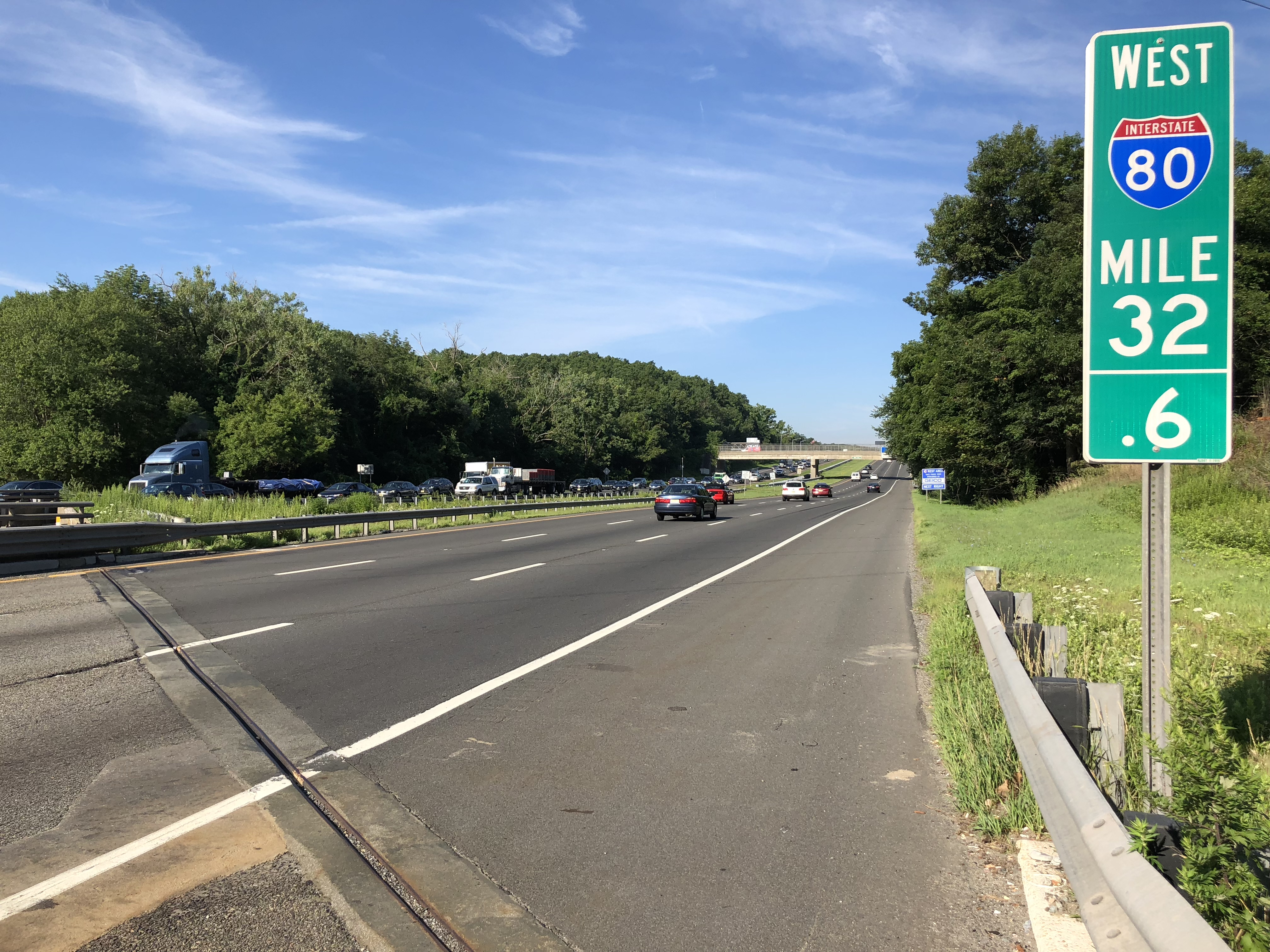 View west along Interstate 80 between Exit 34 and Exit 30 in Jefferson Township, Morris County, New Jersey